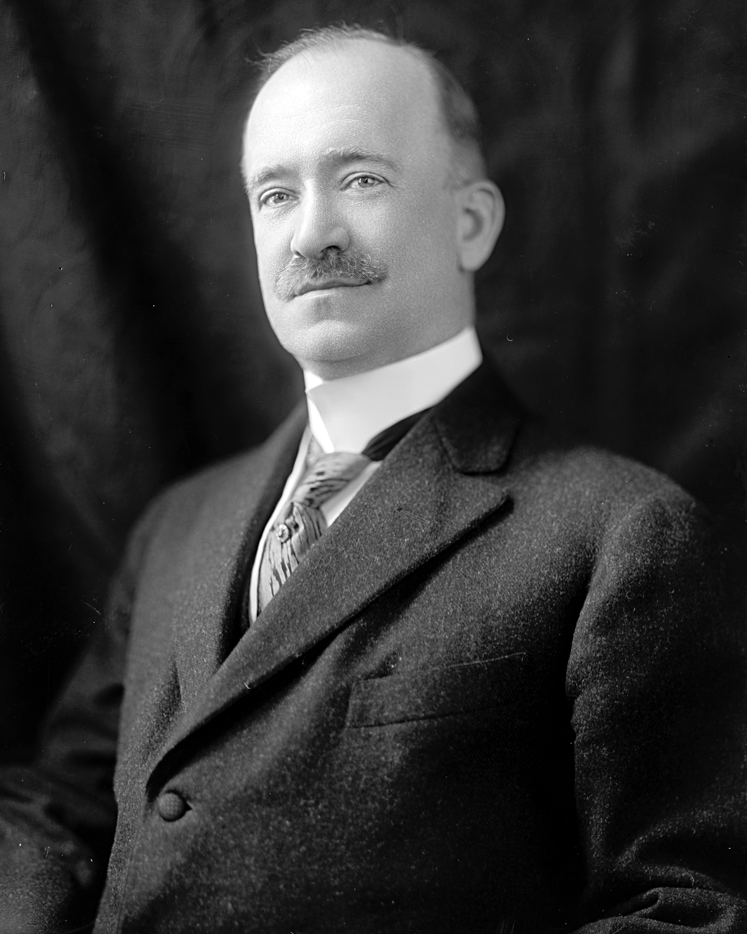 James A. Gallivan, US Representative from Massachusetts